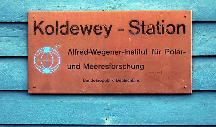 Nameplate of the Koldewey Station, Svalbard, Ny Alesund - 2011